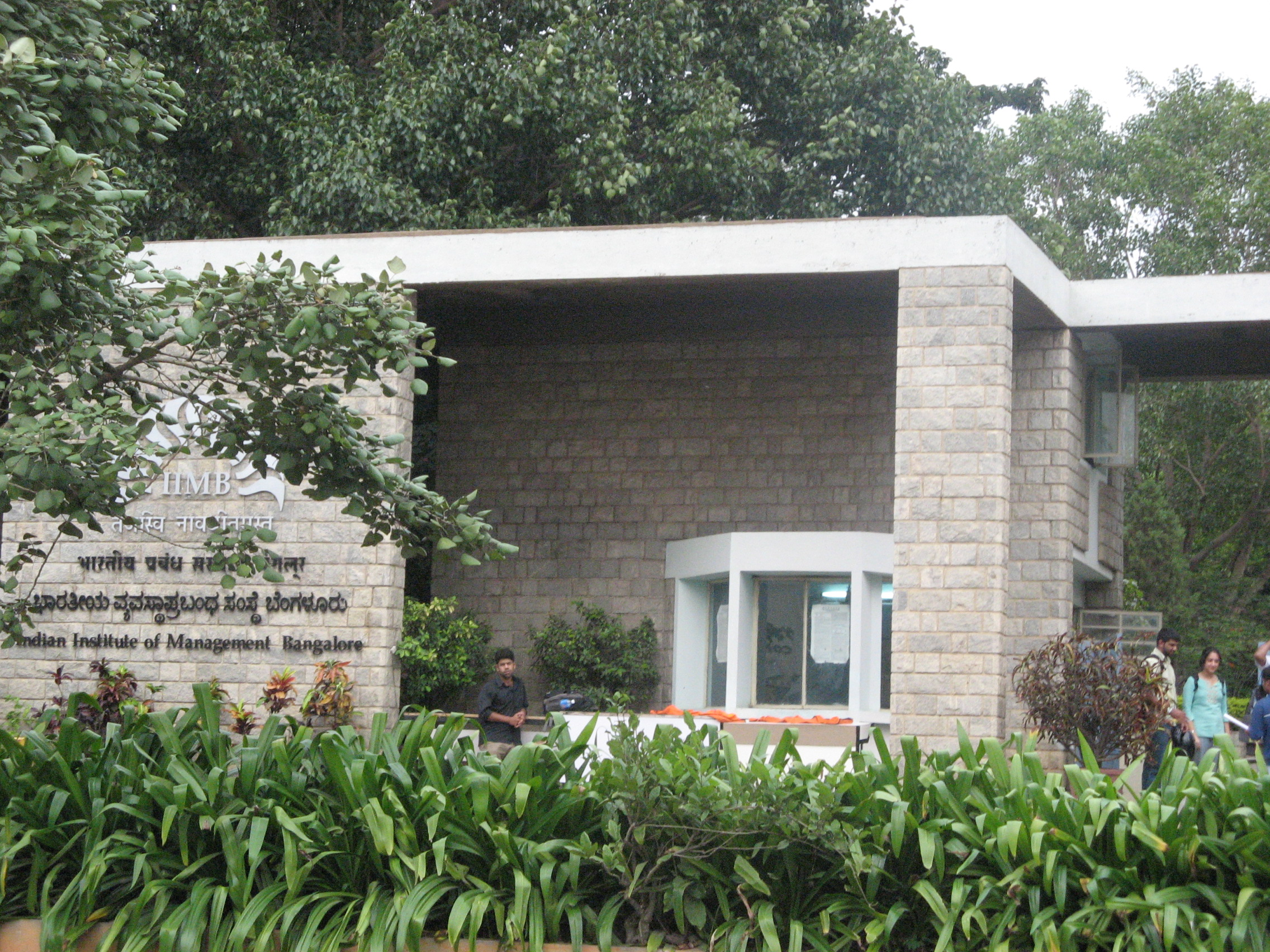 Main Entrance of Indian Institute of Management, Bangalore, INDIA